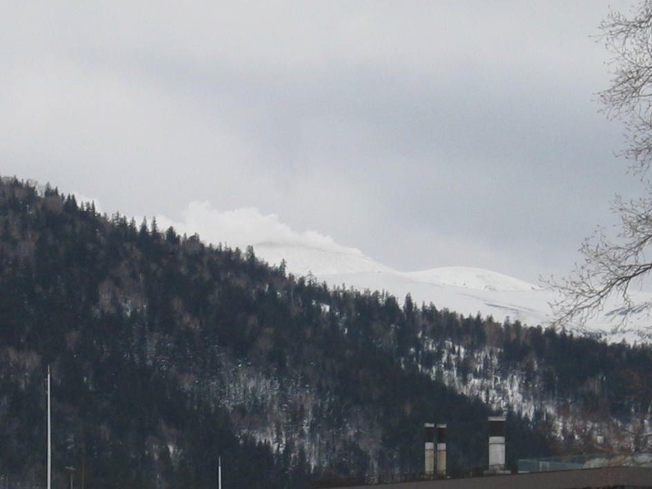 Erupting Meakandake, Hokkaido. Vapor from the crater is in sight. View from lakeside of Lake Akan. ja: 2006年3月21日 雌阿寒岳が小規模噴火した。湖畔温泉街より火口から湧き上がる水蒸気を確認 (同日 user:コムケ氏が阿寒湖畔温泉より撮影)